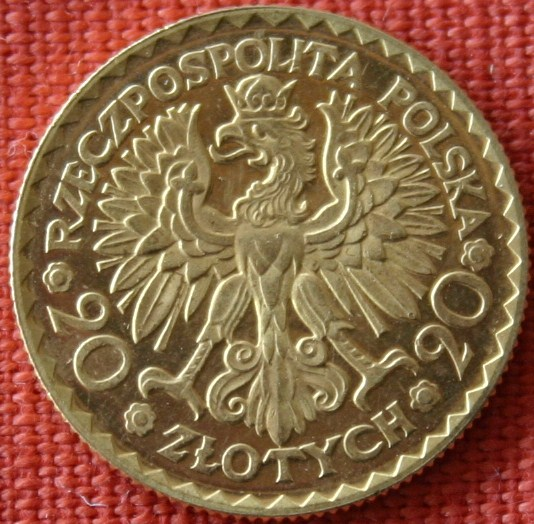 20 zlote coin from 1925